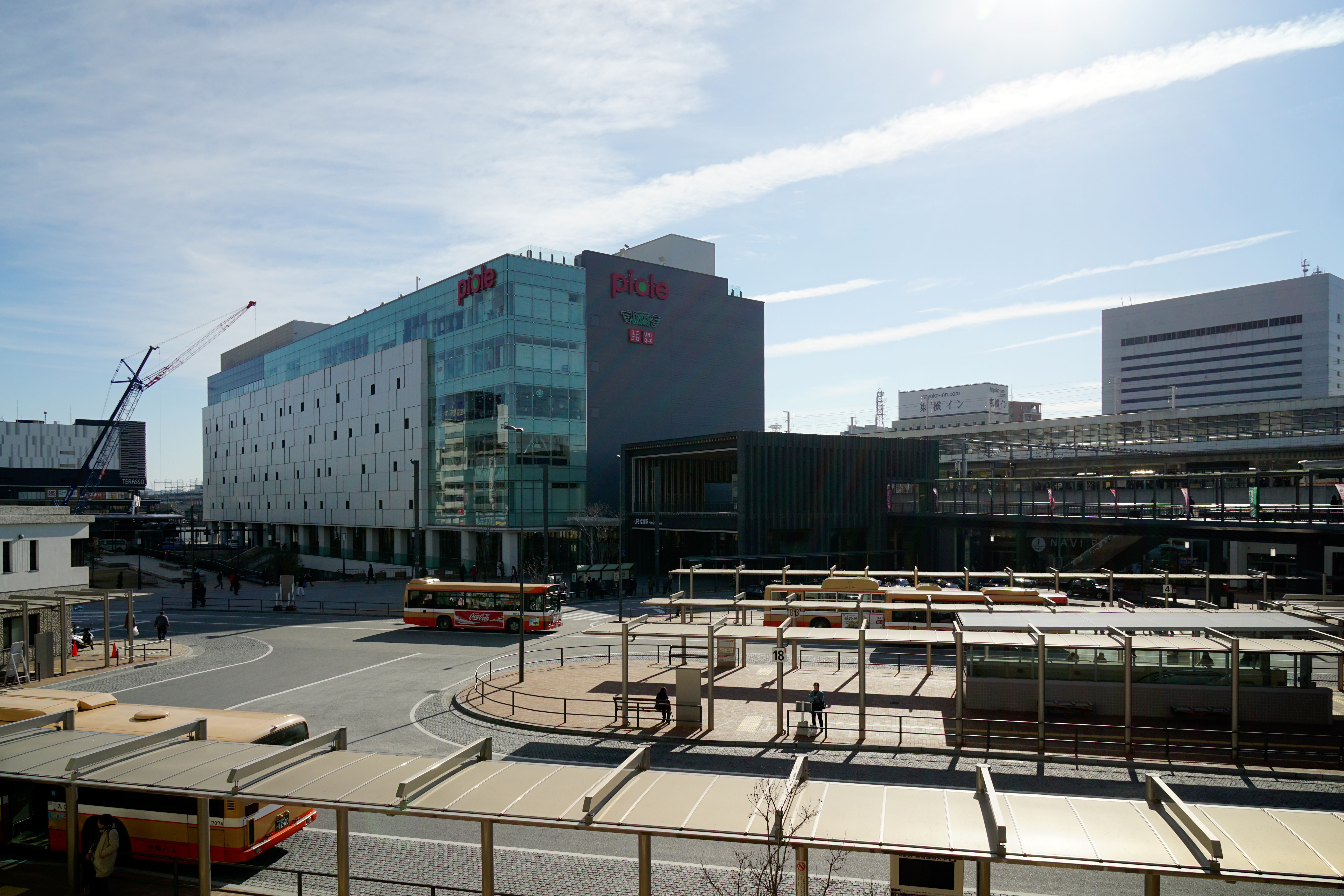 The bus terminal on the north side of Himeji Station in Himeji, Hyogo prefecture, Japan